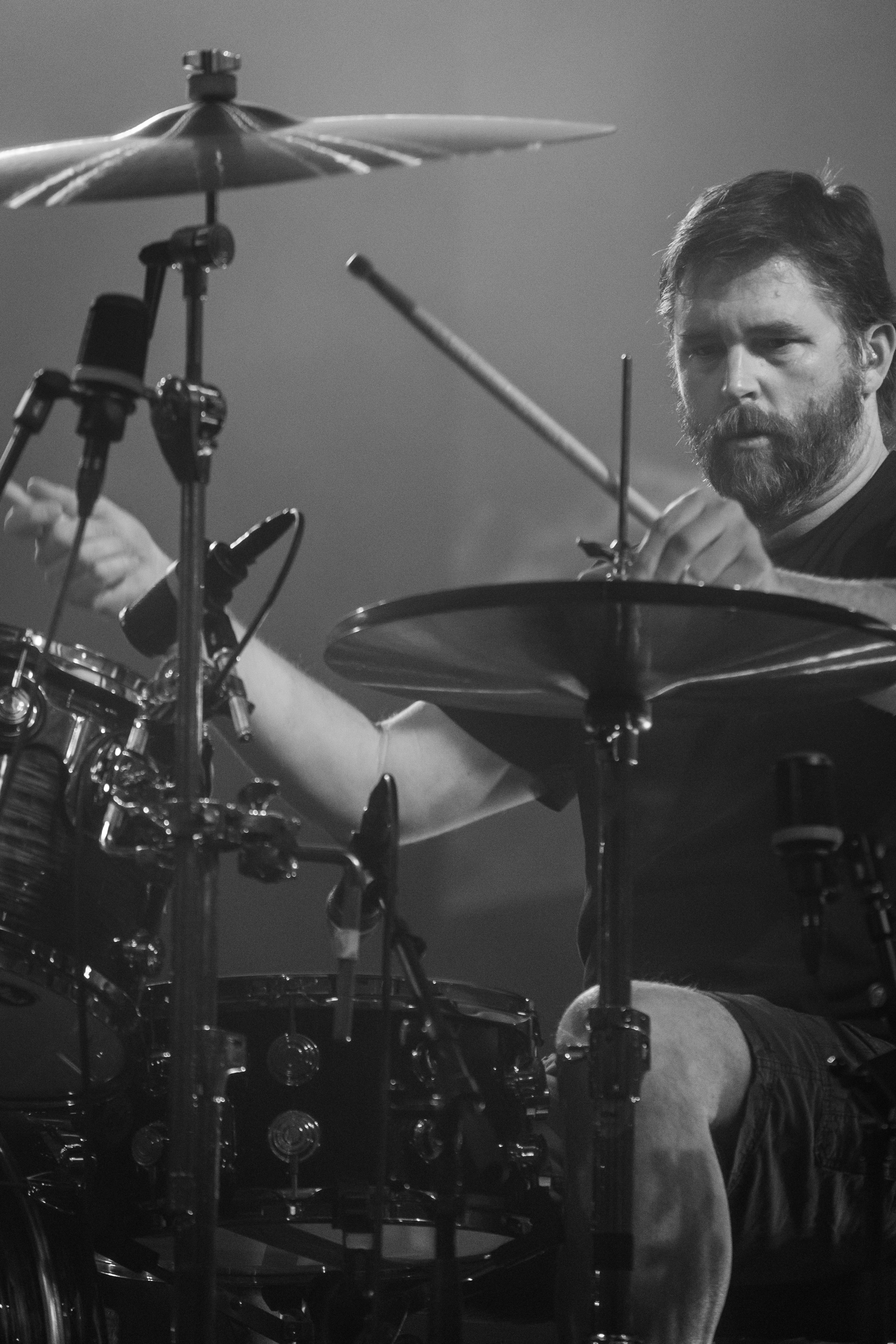 Sleep performing live at Roadburn Festivla 2019